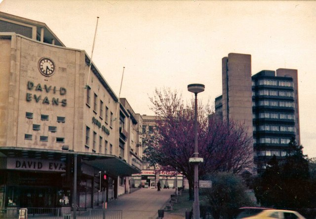 David Evans Department Store, Swansea. May 1979 This view is no longer. The gardens of Castle Square have been replaced by a concrete piazza and David Evans has closed and been demolished. There would be no car in the foreground as the road was pedestrianised.